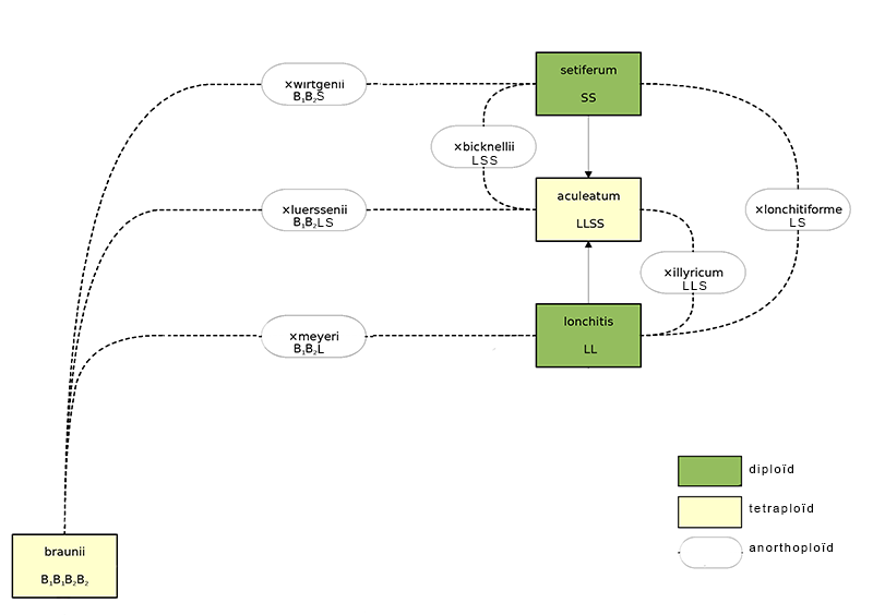 European Polystichums and the hybrid/parentage relations